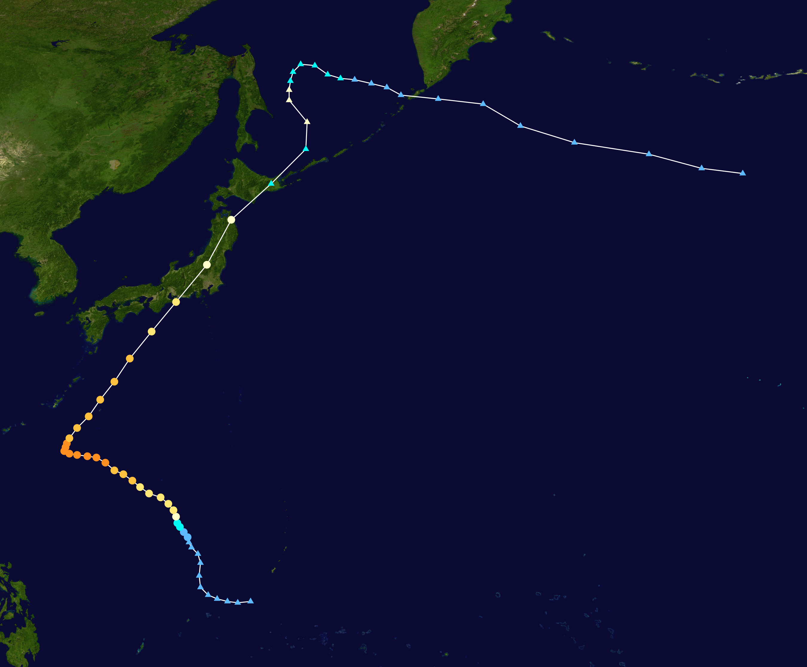 Track map of Typhoon Trix of the 1965 Pacific typhoon season. The points show the location of the storm at 6-hour intervals. The colour represents the storm's maximum sustained wind speeds as classified in the Saffir-Simpson Hurricane Scale (see below), and the shape of the data points represent the nature of the storm, according to the legend below. Saffir–Simpson hurricane wind scale Tropical depression≤38 mph≤62 km/h Category 3111–129 mph178–208 km/h Tropical storm39–73 mph63–118 km/h Category 4130–156 mph209–251 km/h Category 174–95 mph119–153 km/h Category 5≥157 mph≥252 km/h Category 296–110 mph154–177 km/h Unknown Storm typeTropical cycloneSubtropical cycloneExtratropical cyclone / Remnant low / Tropical disturbance